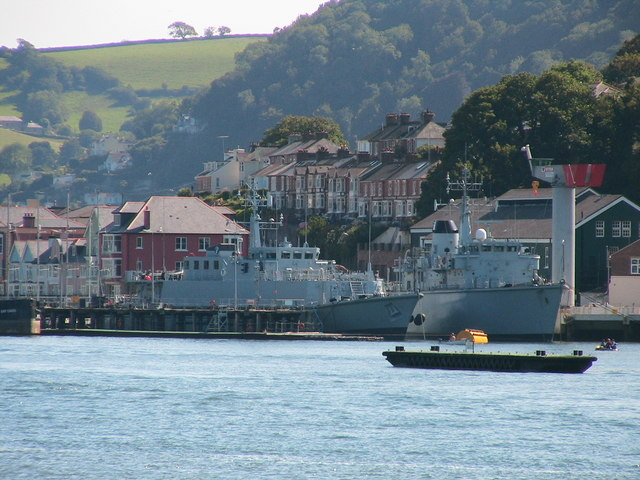 Sand Quay, Dartmouth. A full house for Britain's smallest dockyard. The Dartmouth training ship HMS Cromer, a former Sandown class minesweeper, is on the left. HMS Brecon, a former Hunt class minesweeper is on the right, and is being converted to a floating classroom for use at Devonport.